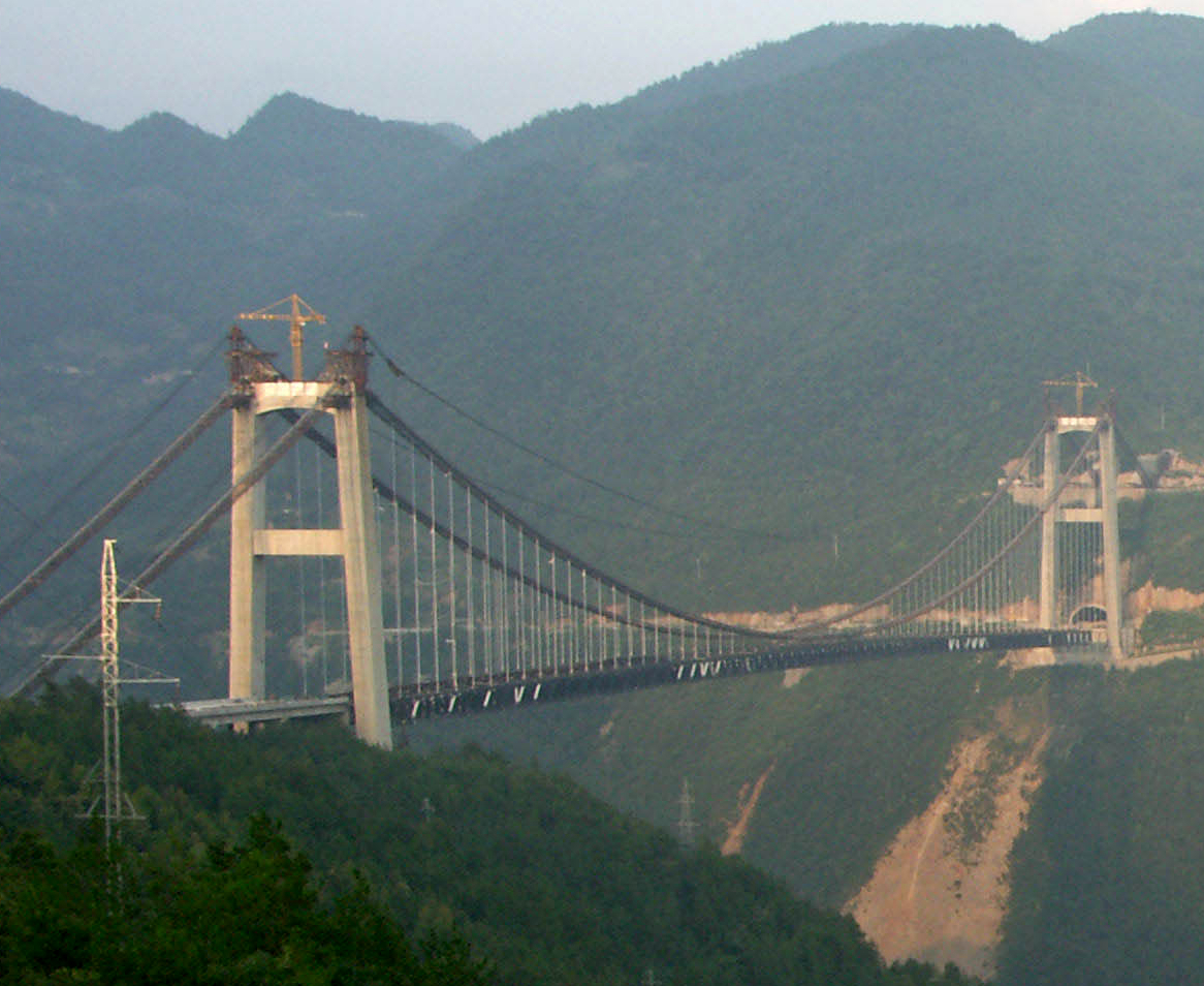 Siduhe Bridge looking east towards the Siduhe tunnel